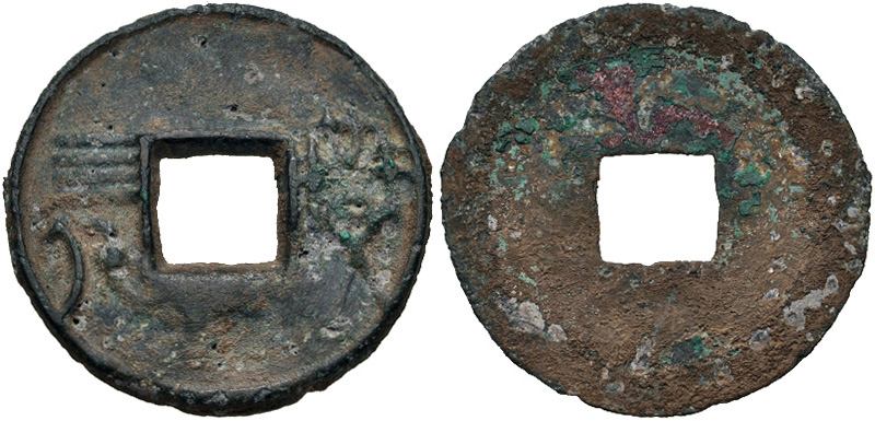 CHINA, Eastern Zhou dynasty - Warring States Period. State of Qí. City of Yi. Circa 300-220 BC